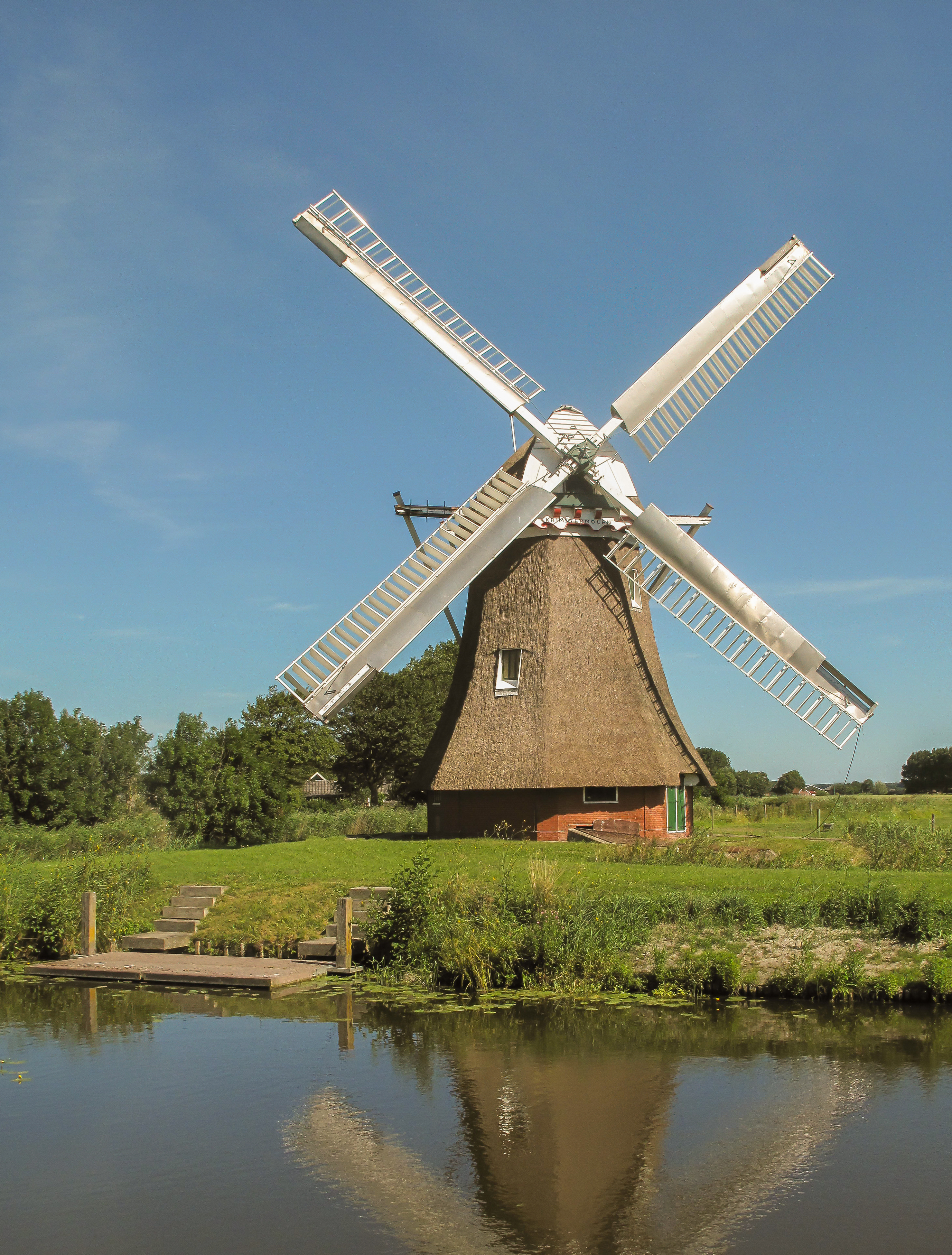 Zuidwolde, windmill: de Krimstermolen